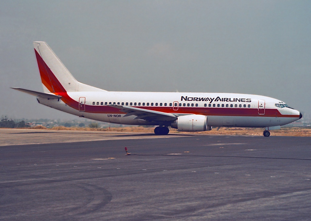 Norway Airlines Boeing 737-33A LN-NOR at Faro Airport